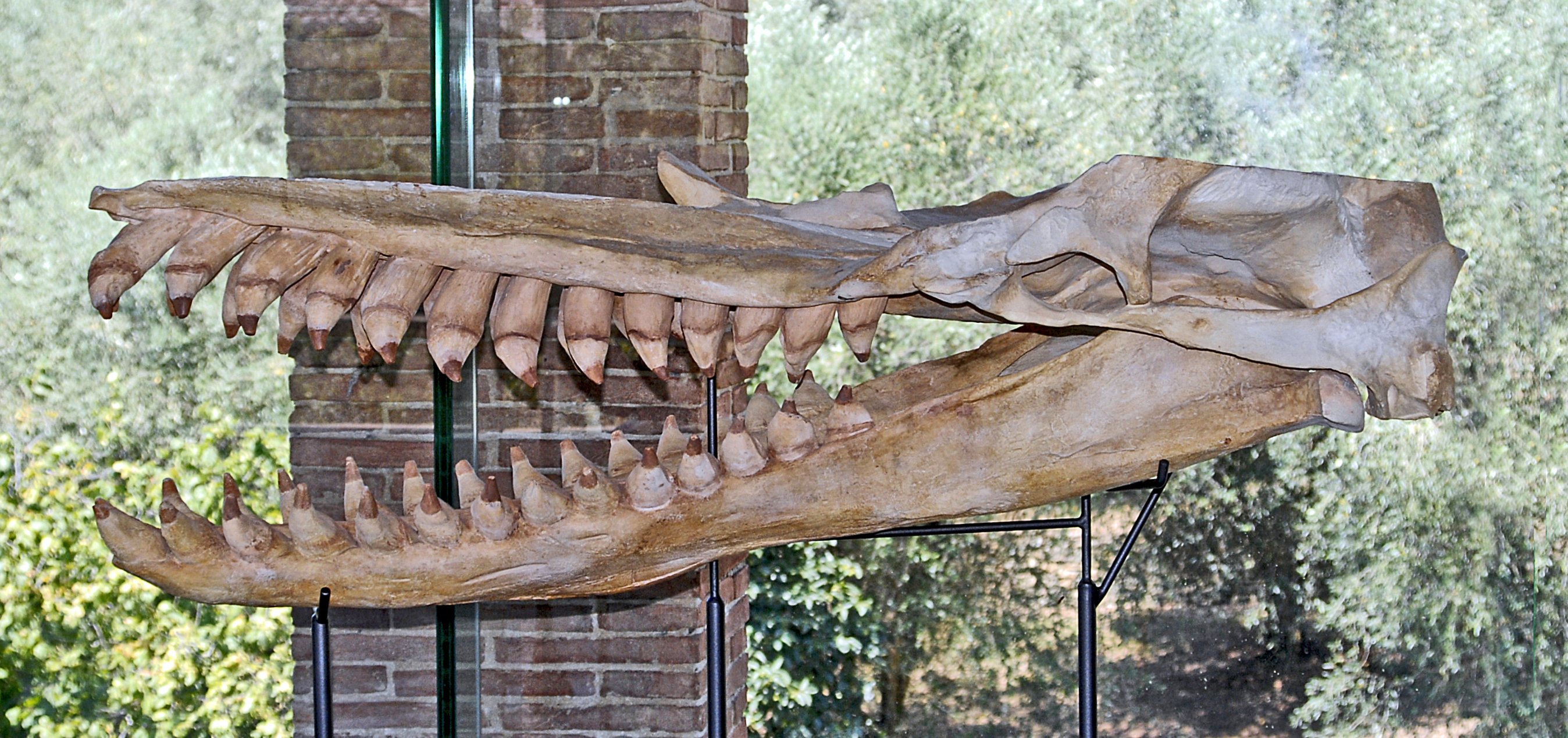 Cast of skull with teeth and mandible of Zygophyseter varolai, on display at the Museo di Storia Naturale e del Territorio, Calci (Province Pisa), Italy